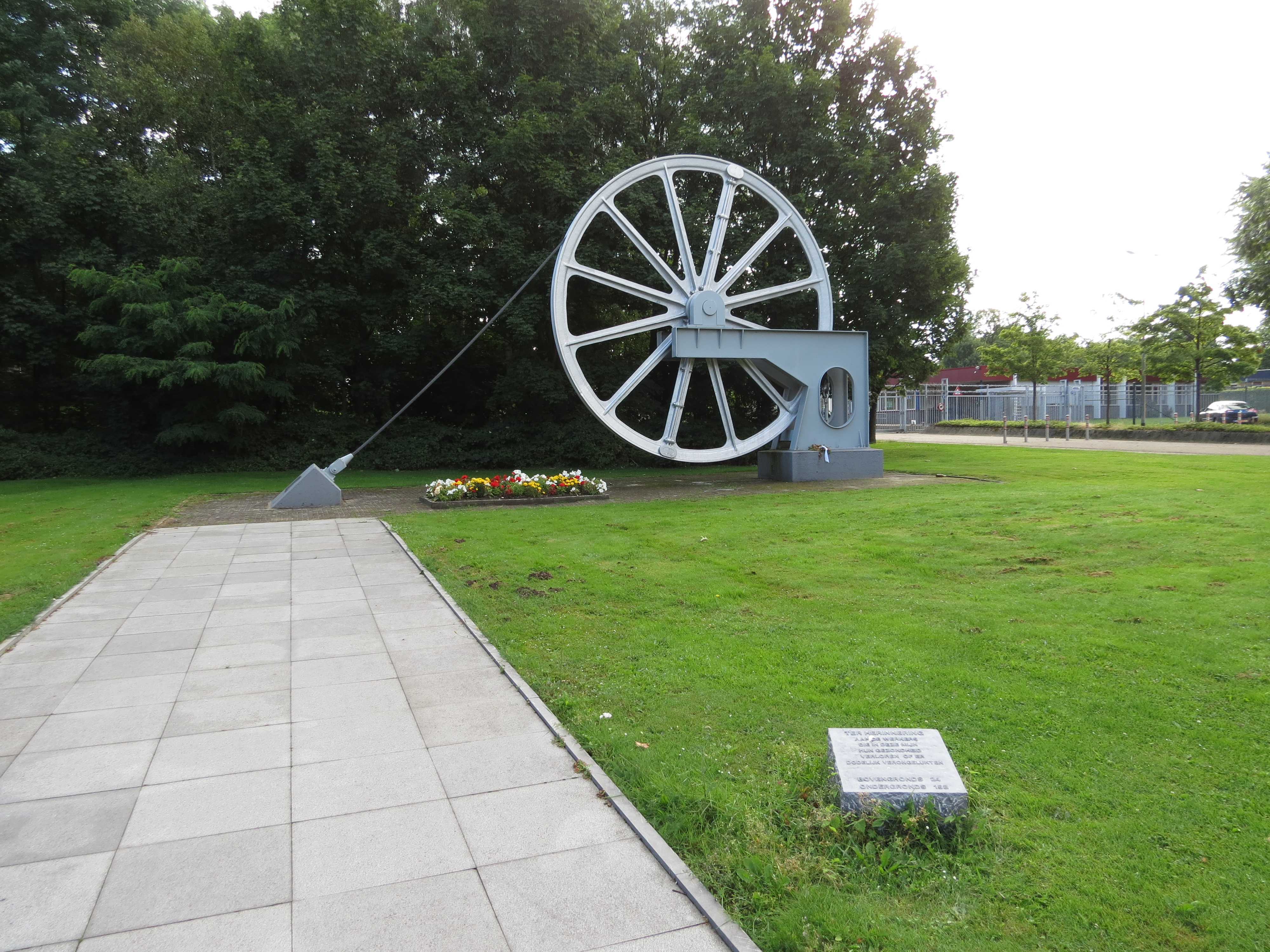 Monument at the Former State Mine Hendrik in Brunsssum The Netherlands, commemmorating all killed and injured miners